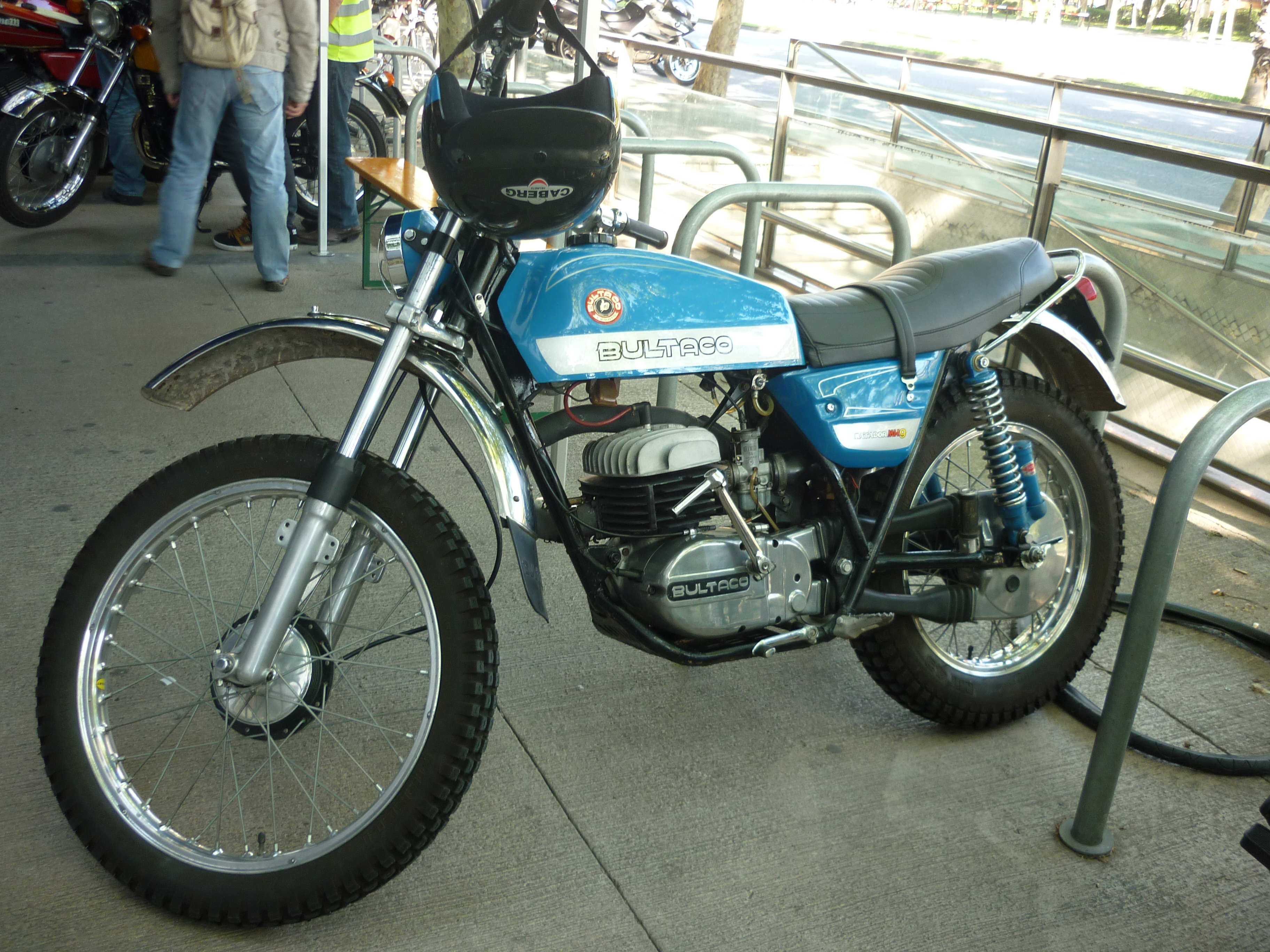 Bultaco Matador MK9 350, 1976